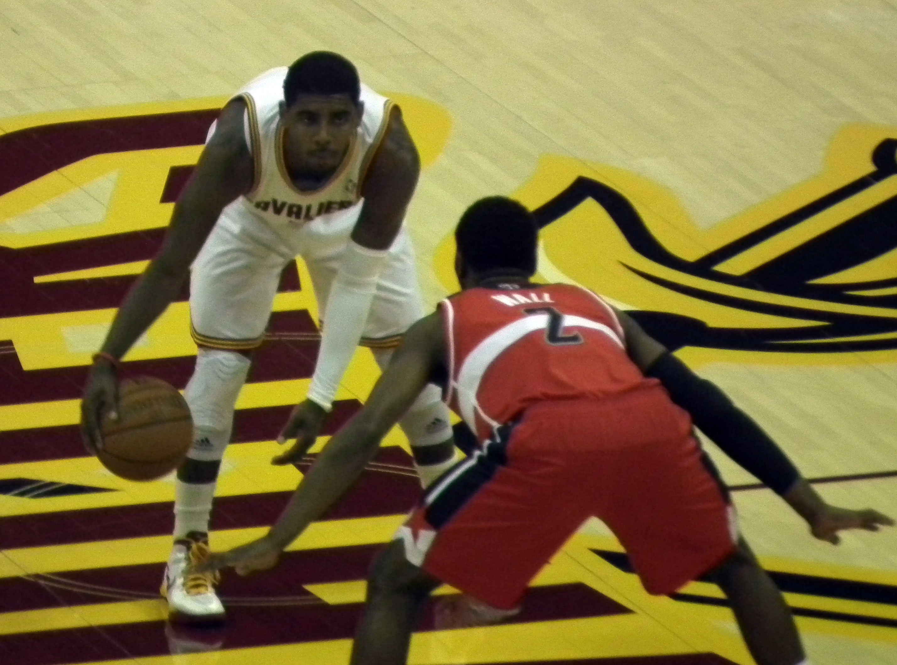 Washington Wizards vs Cleveland Cavaliers, 2012.